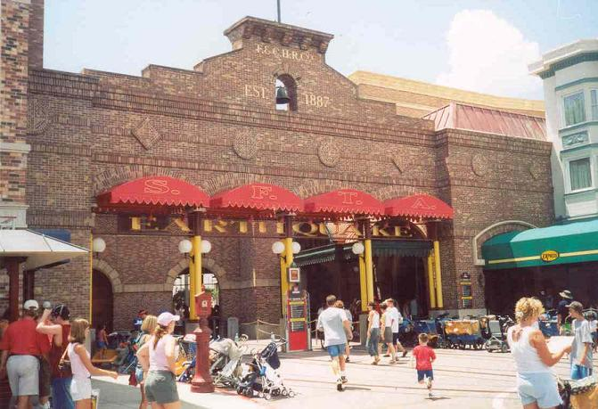 Entrance to the Earthquake ride in Universal Orlando Resort Camera Information Camera used: Canon SureShot 80Tele